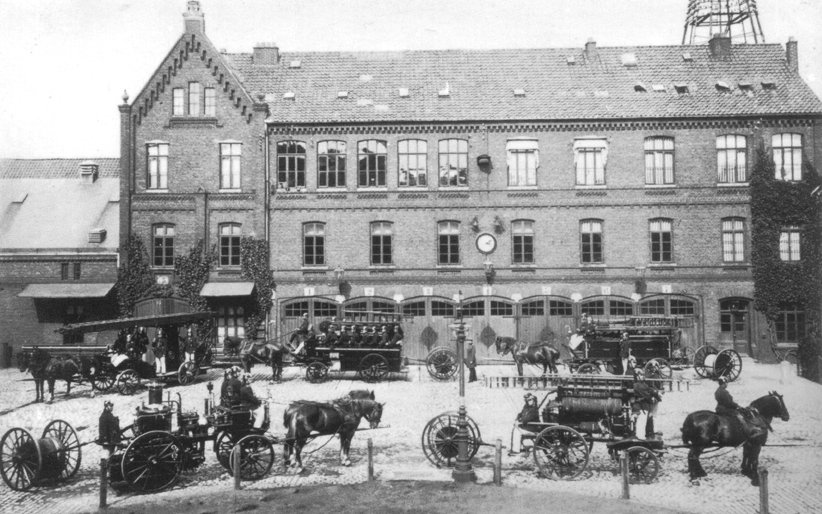 Firefighters of Bremen, Germany, in 1880.